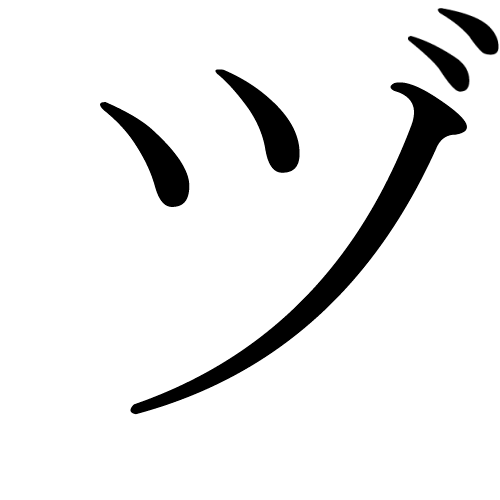 The katana character 'zu'.